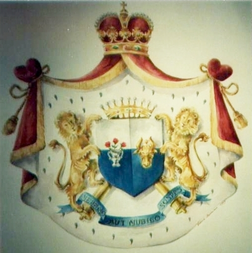 Royal Full Acheivement of Arms (Coat of Arms) of the Rosetti (Rossetti) family. Motto: VERENO AUT NUBILO SOSPES